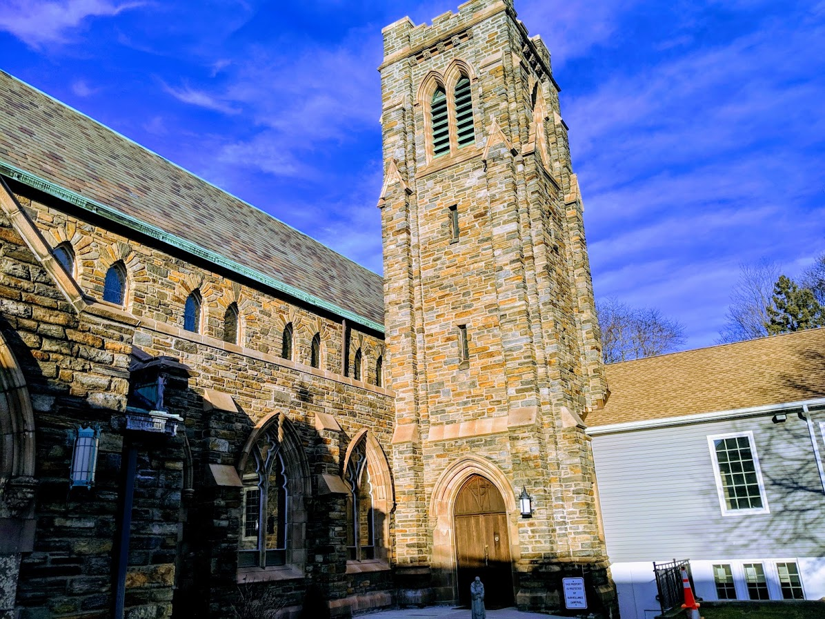 Wyckoff-Snediker Family Cemetery St. Matthew's Episcopal Church Old and new extension